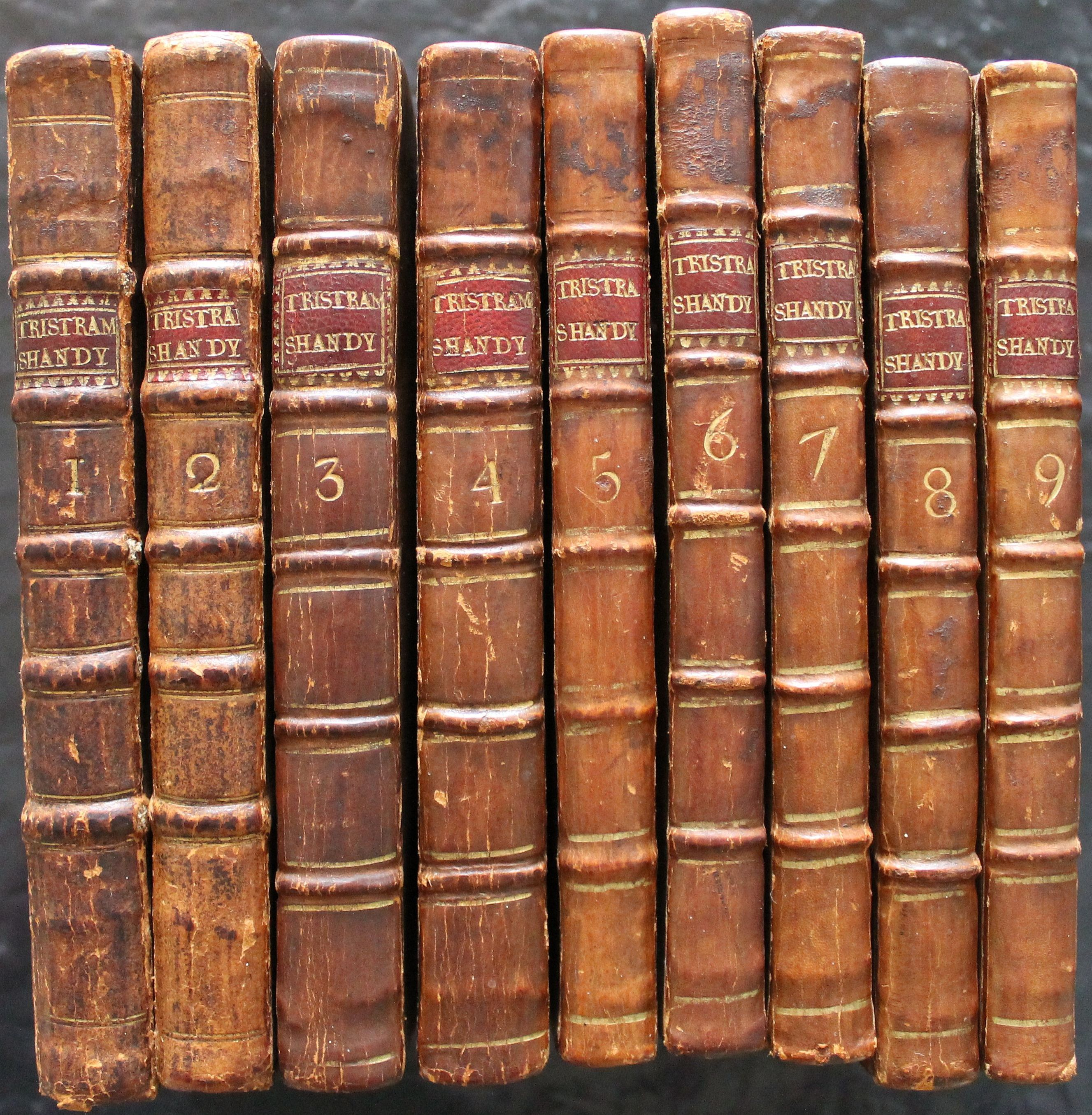 The spines of a complete set of the Life and Opinions of Tristram Shandy first editions. These are in the collection of the Laurence Sterne Trust at Shandy Hall.